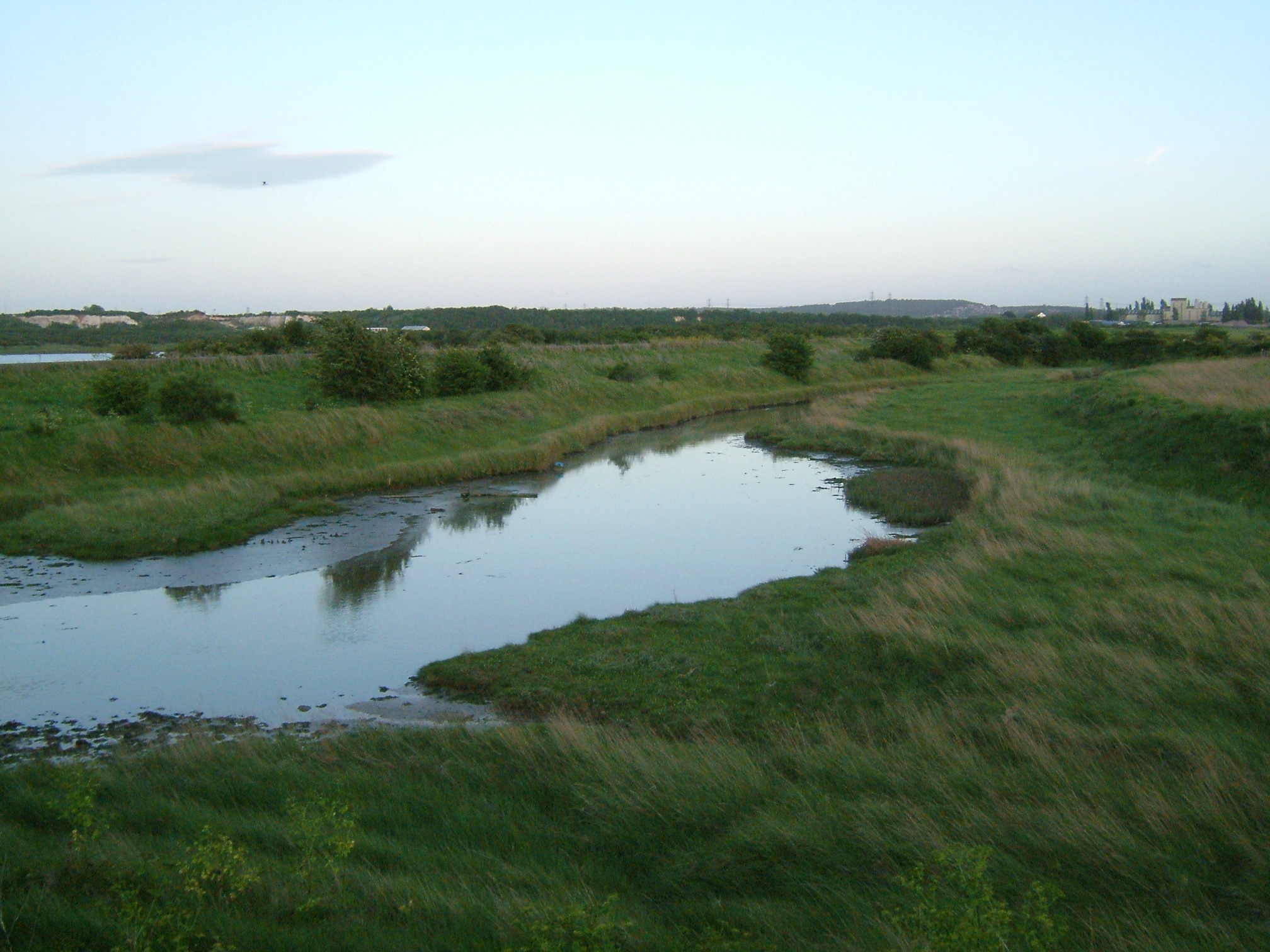 Cliffe Pools are important wetland sites within the North Kent Marshes. Here we see the former Cliffe Creek, which has been cut off from the see by sea defences. It is now a fleet. - Google Maps - Google Earth